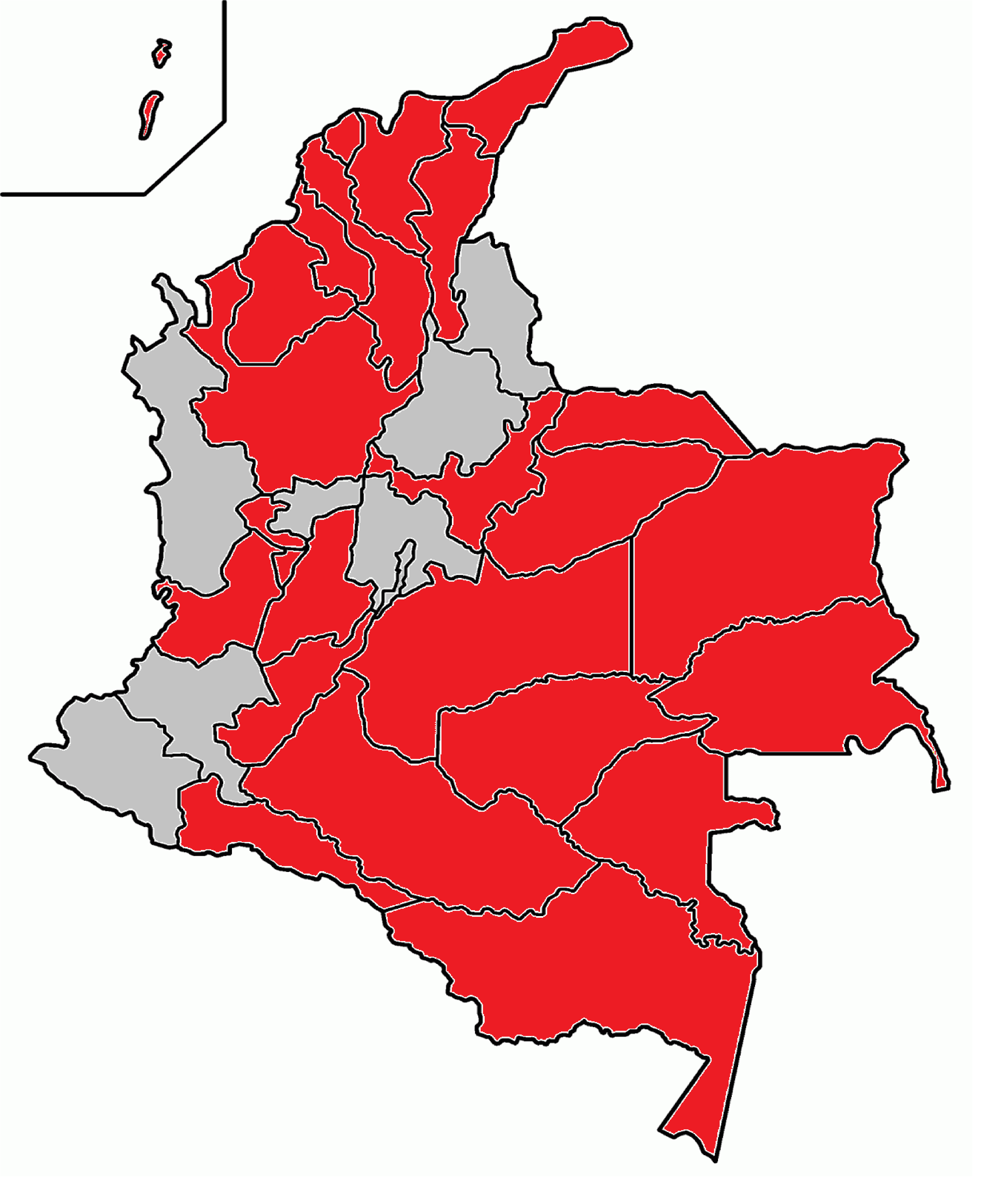 Dengue epidemic 2019-2020 in the Republic of Colombia